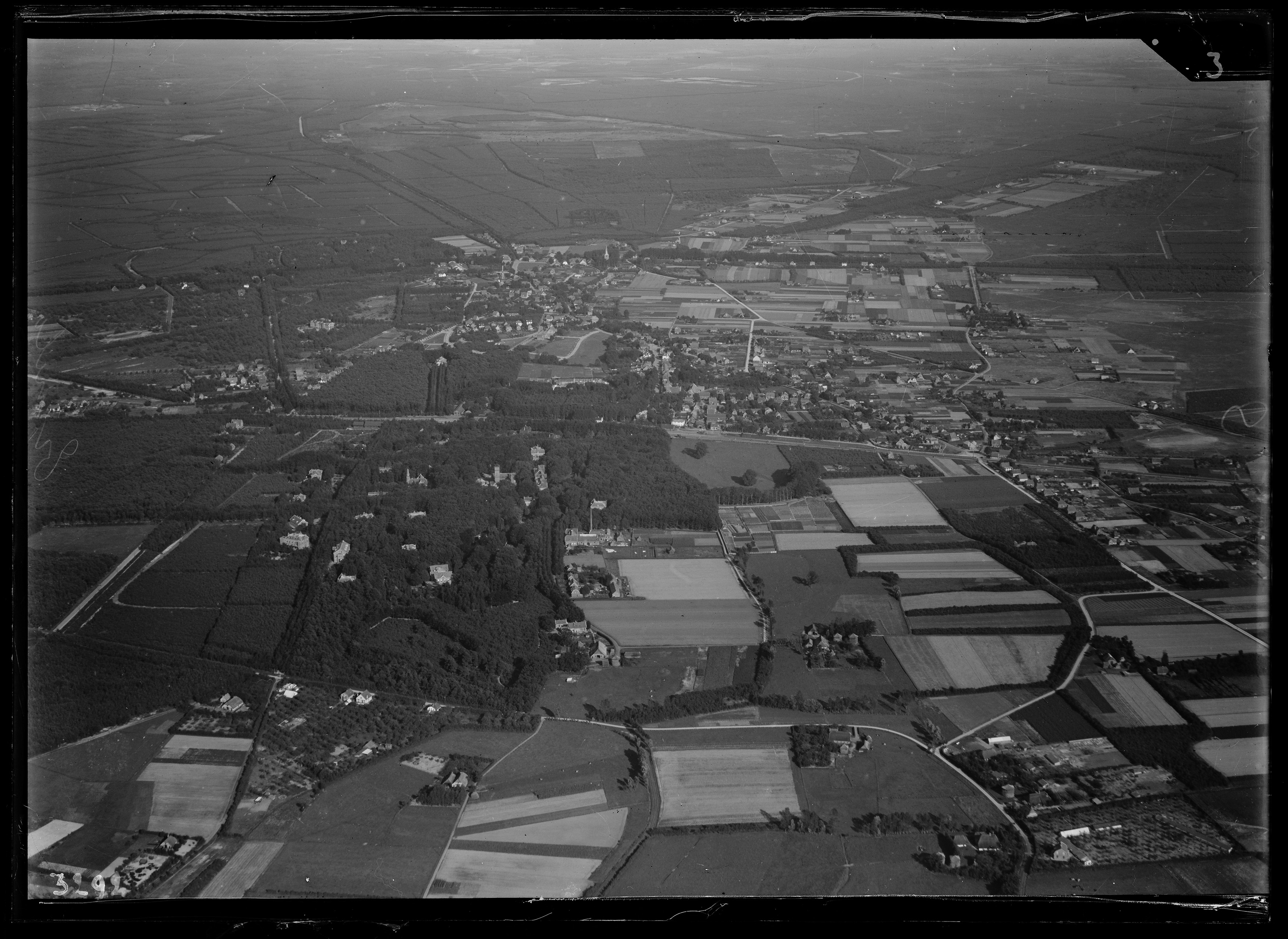 Aerial photograph of Ermelo, The Netherlands